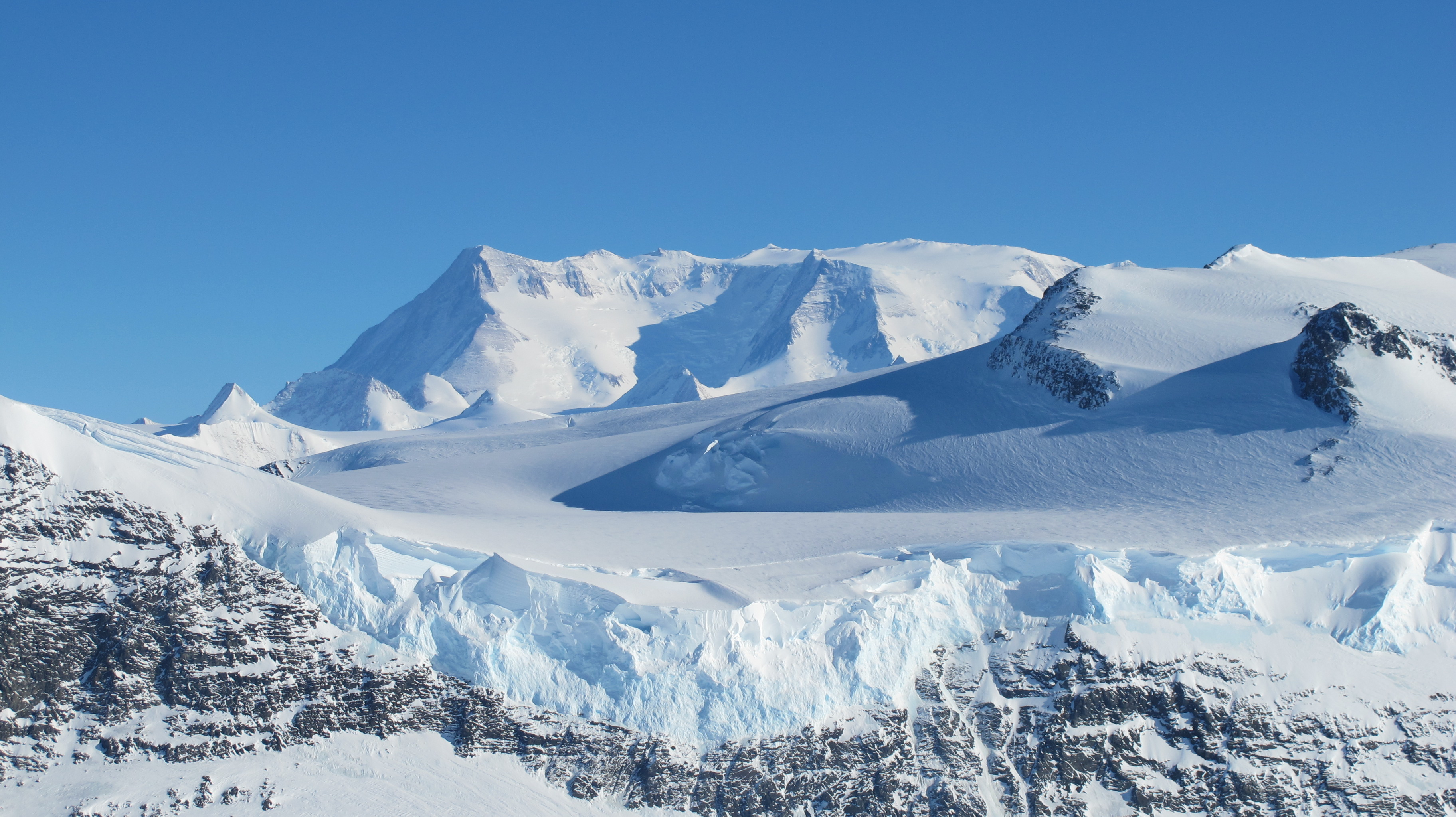 Ice on the Ellsworth Range in Antarctica as seen from the IceBridge DC-8 on Oct. 22, 2012. NASA's Operation IceBridge is an airborne science mission to study Earth's polar ice. For more information about IceBridge, visit